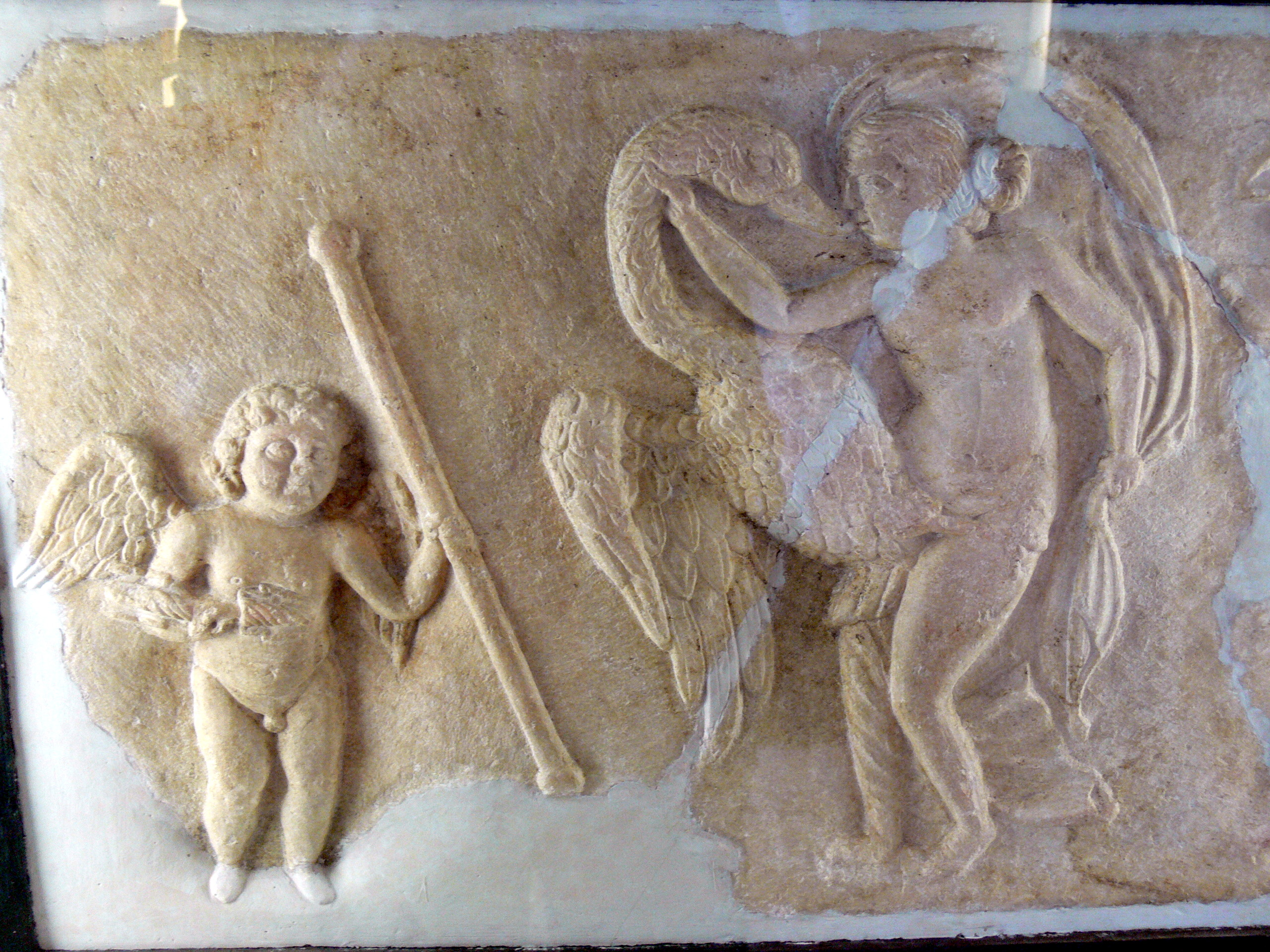 Castle museums in Linz ( Upper Austria ). Archeological collection: Relief of Leda with swan from Enns, Roman period, 4th century AD.